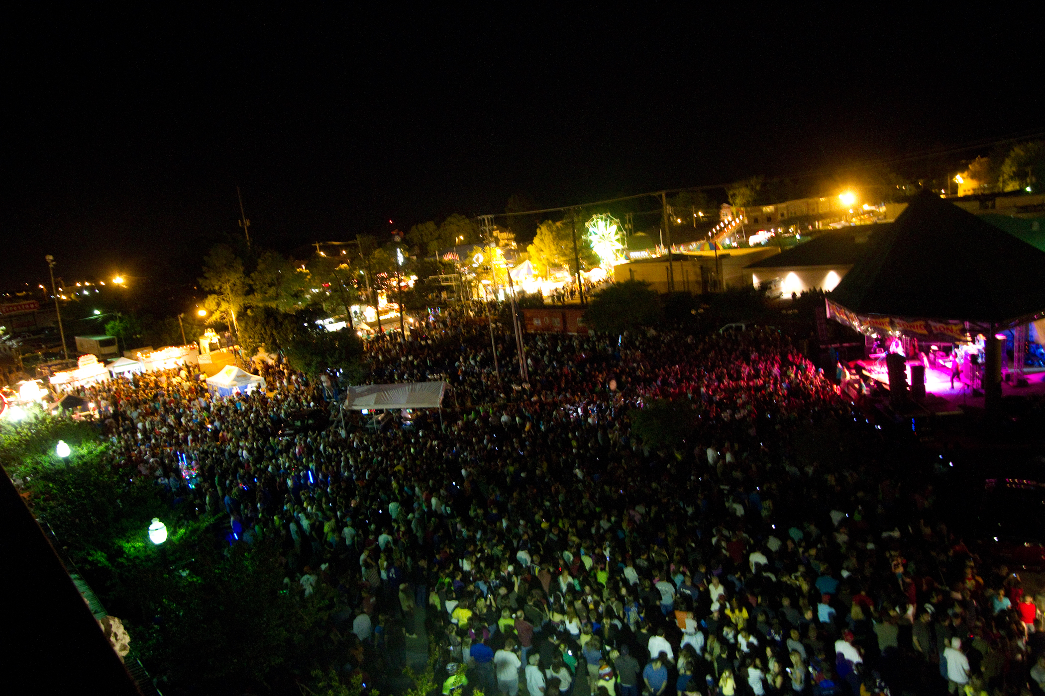 Concert crowd for Toad Suck Festival 2011